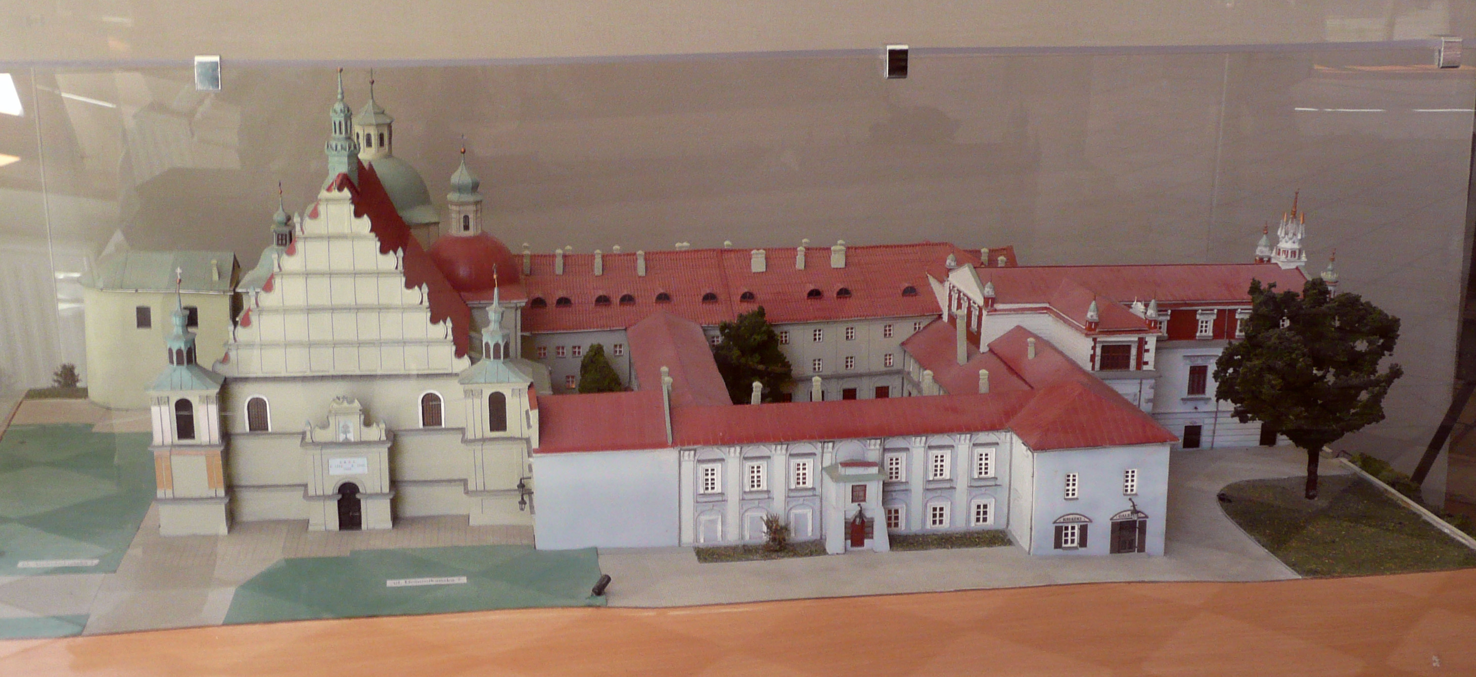 A scale model of the Dominican monastery in Lublin